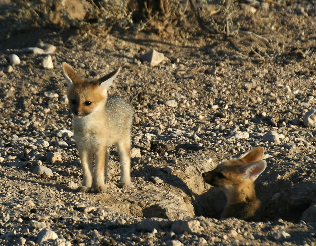 Young Cape Foxes in Etosha N.P., Namibia